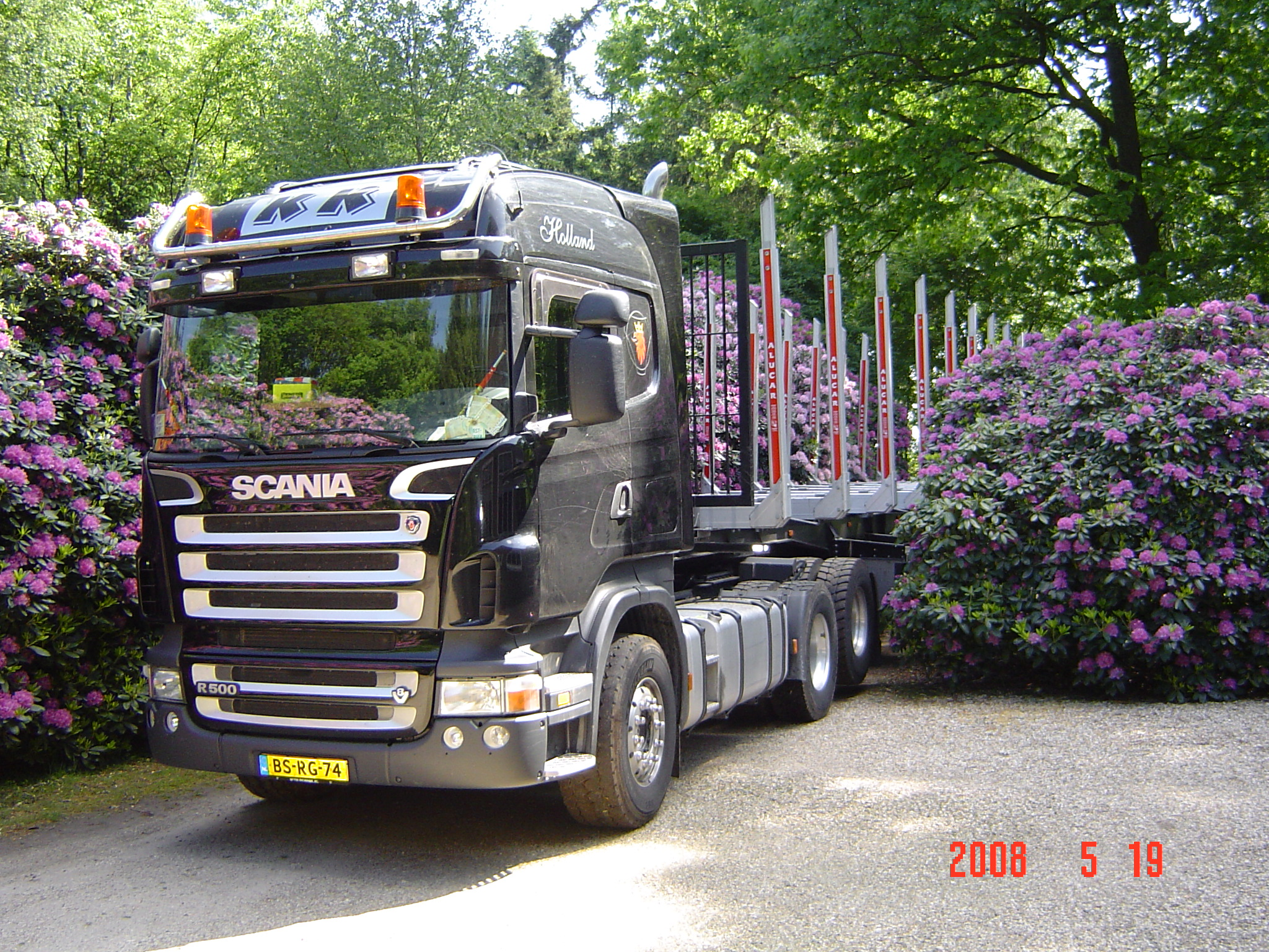 Scania R500 in Lavender surrounds